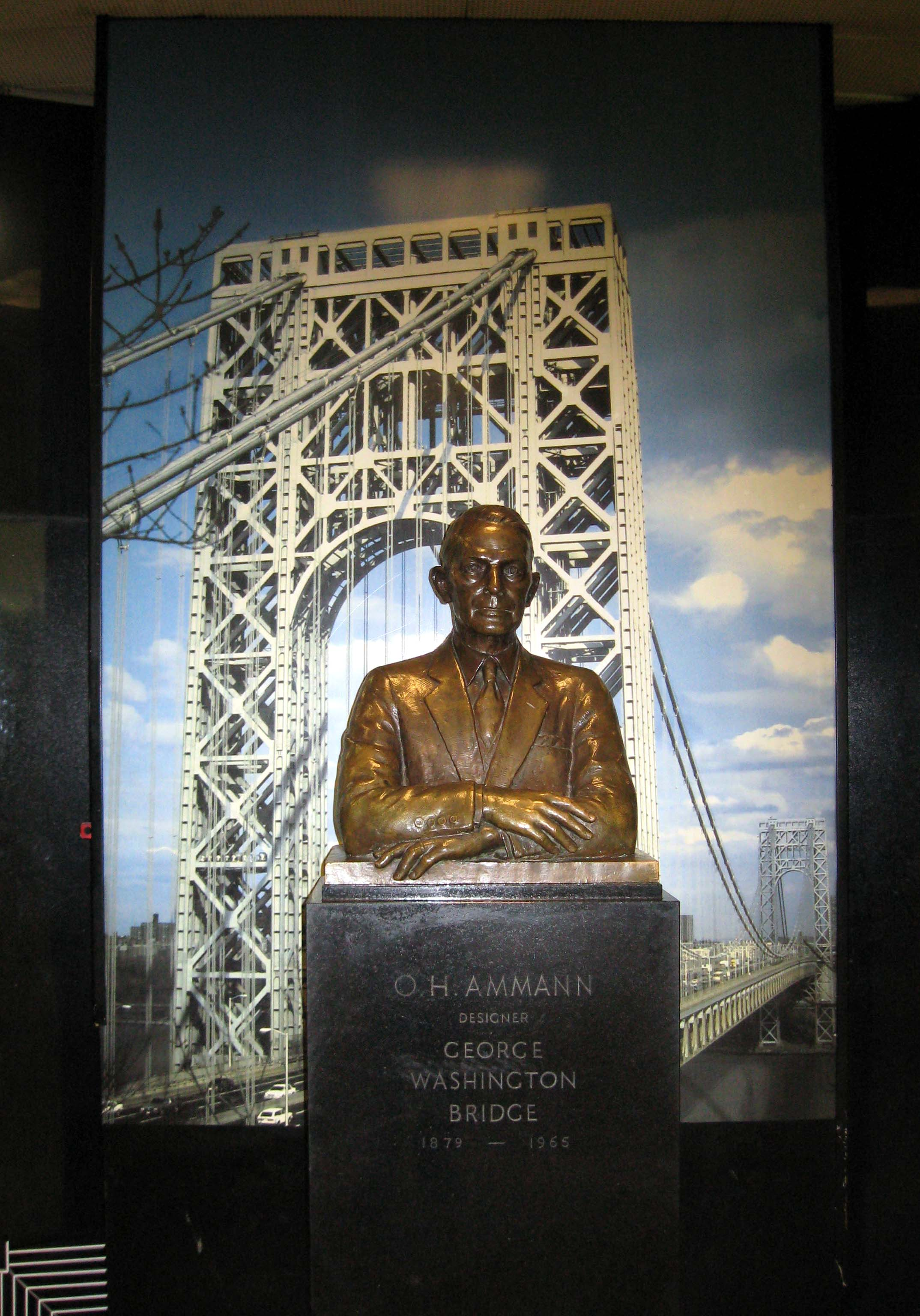 Bust of Othmar Ammann. I took this flash picture in George Washington Bridge Bus Station.